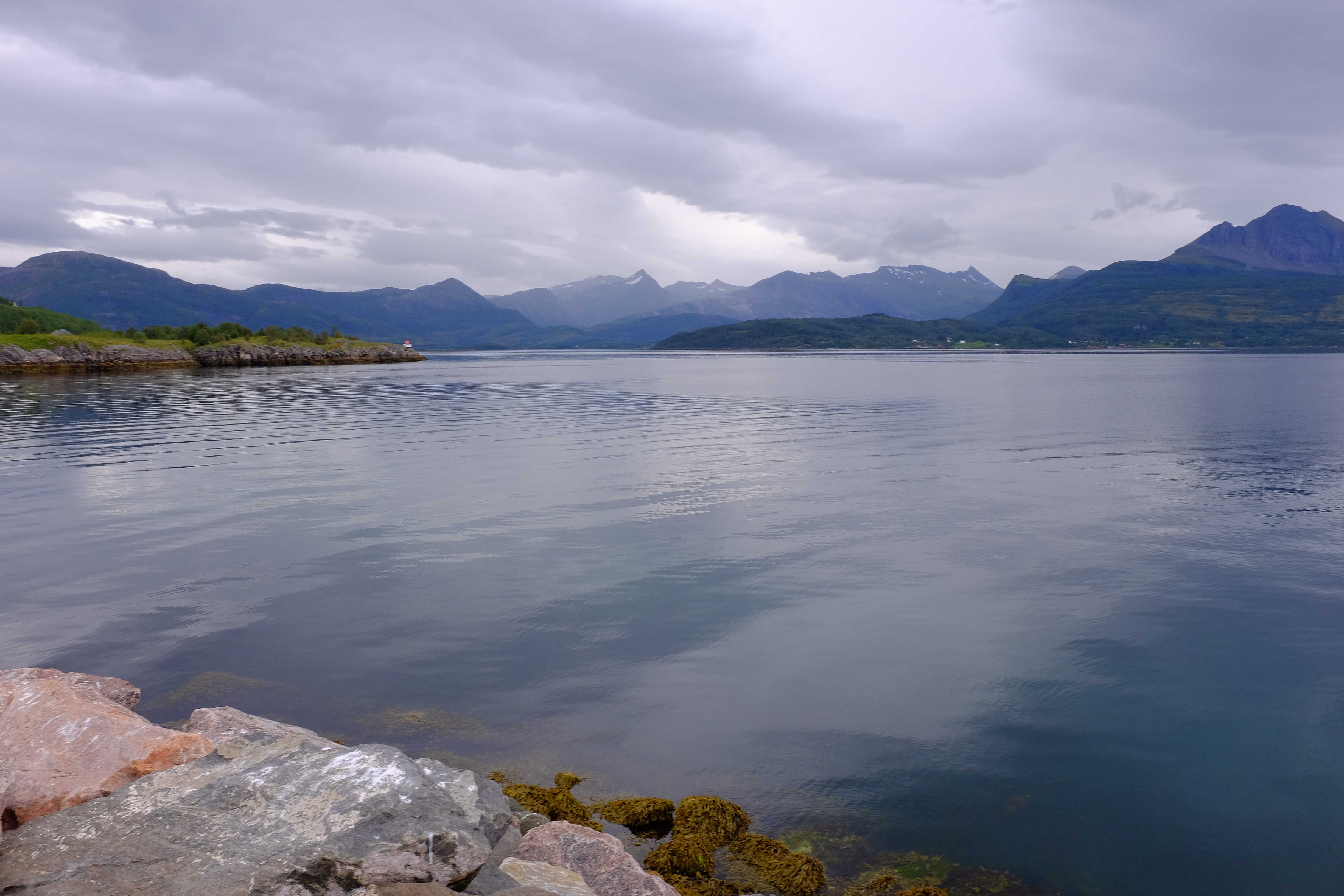 View from the harbor of Inndyr towards southern parts of Sørfjorden, Gildeskål municipality, Nordland county, Norway.